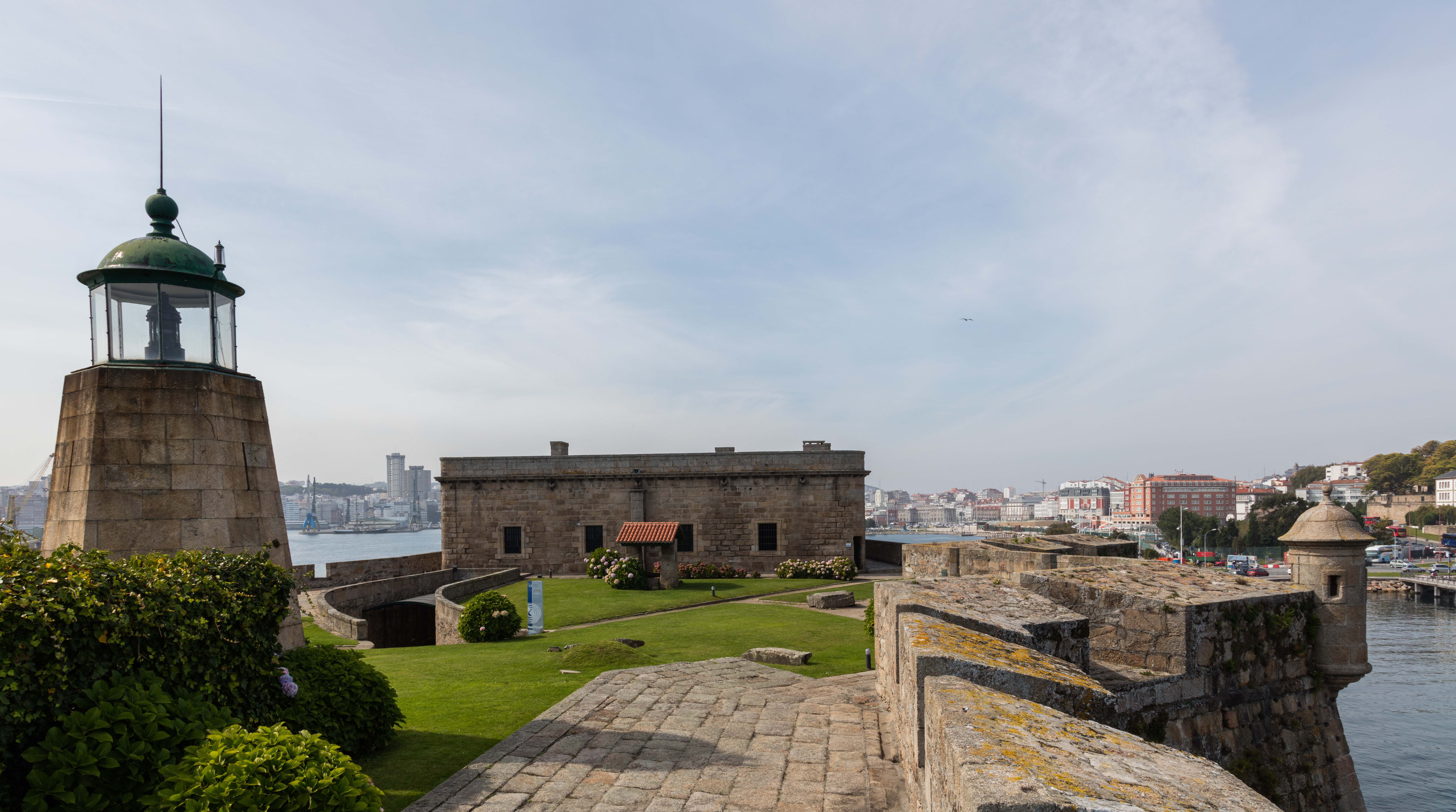 San Antón Castle, La Coruña, Spain